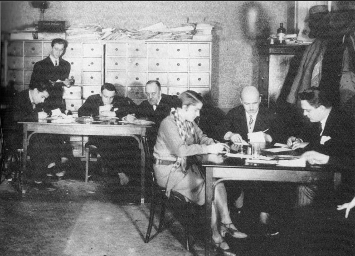 Anđelija Bunuševac (Anđa) in the redaction of Politika newspapers,1930. Српски (ћирилица): Анђелија Бунушевац (Анђа) у редакцији Политике 1930. године.